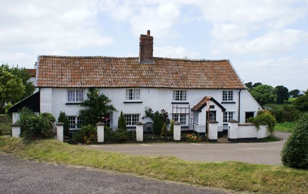 Crossways House at Aylesbeare